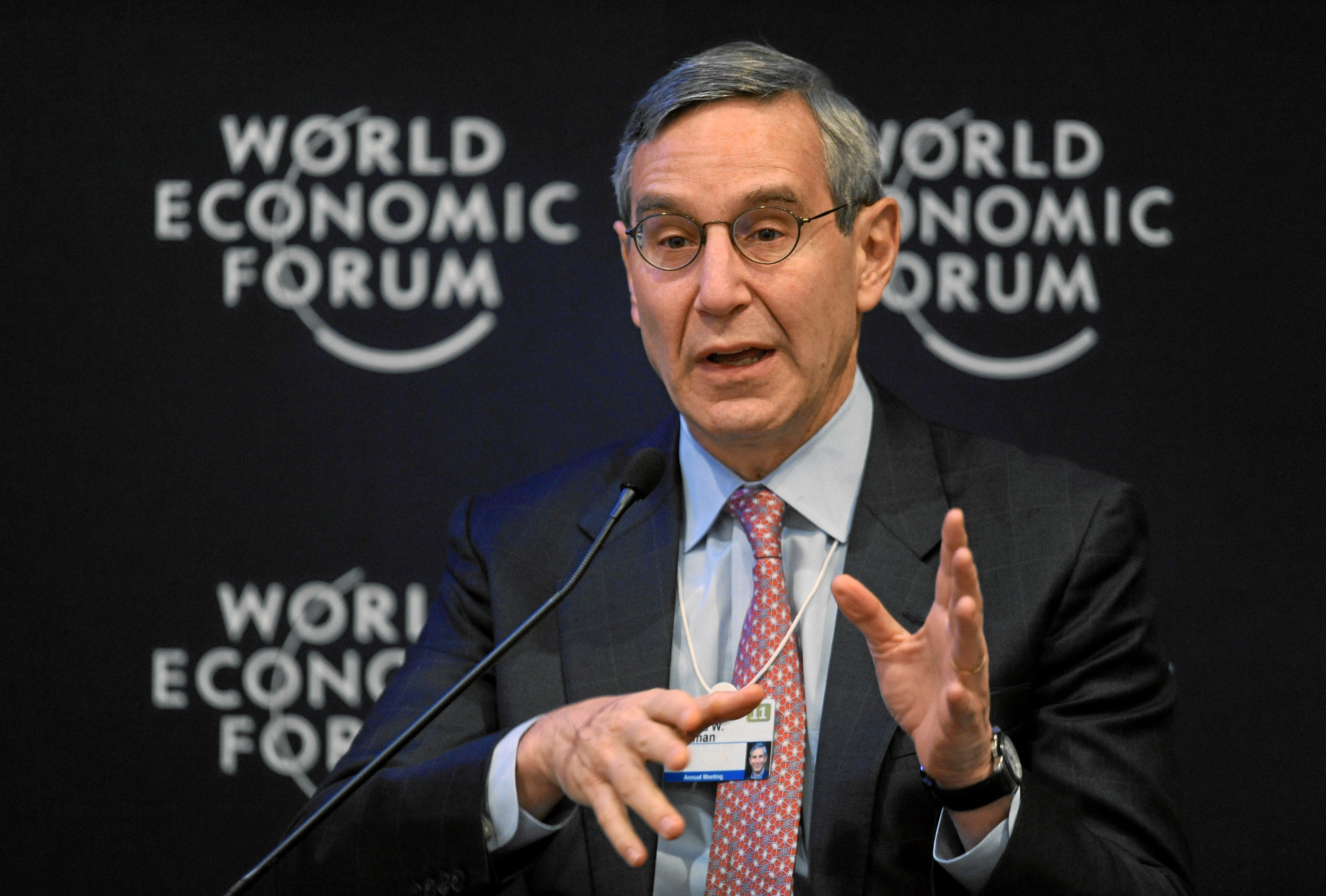 DAVOS/SWITZERLAND, 27JAN11 - Richard W. Edelman, President and Chief Executive Officer, Edelman, USA, speaks during the session 'The New Reality of Consumer Power' at the Annual Meeting 2011 of the World Economic Forum in Davos, Switzerland, January 27, 2011. Copyright by World Economic Forum by Michael Wuertenberg